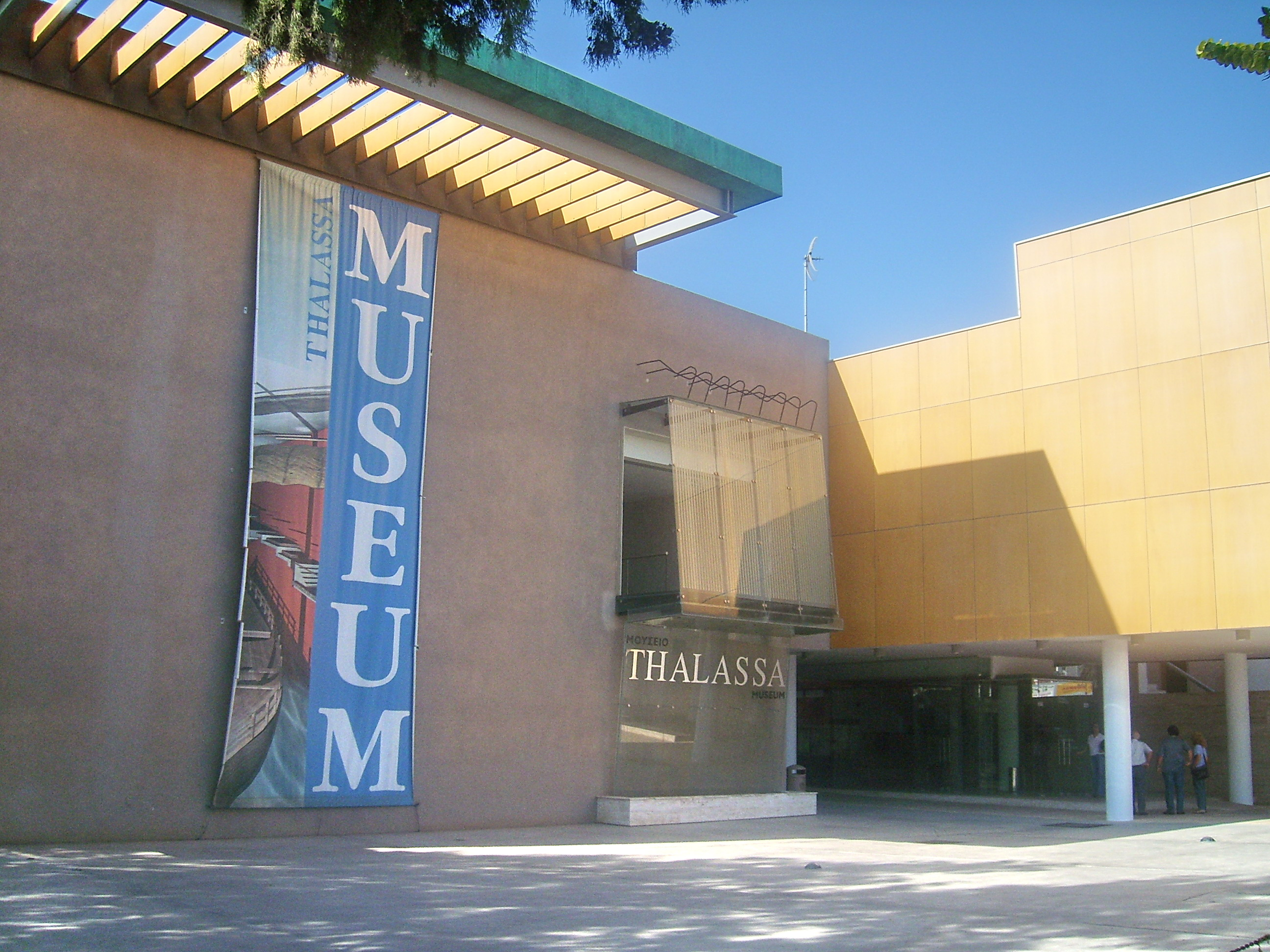 Thalassa Museum in Agia Napa, Cyprus